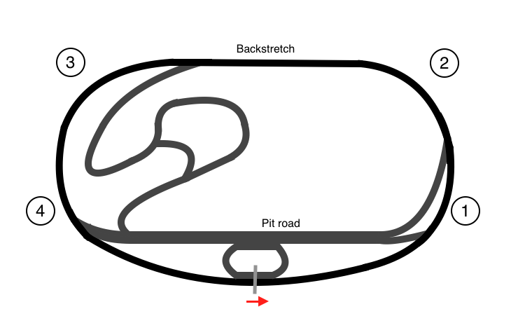 This file is a map of Iowa Speedway.